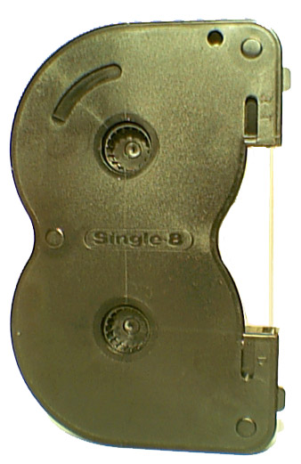 Silent Single 8 Cartridge by Rear Side